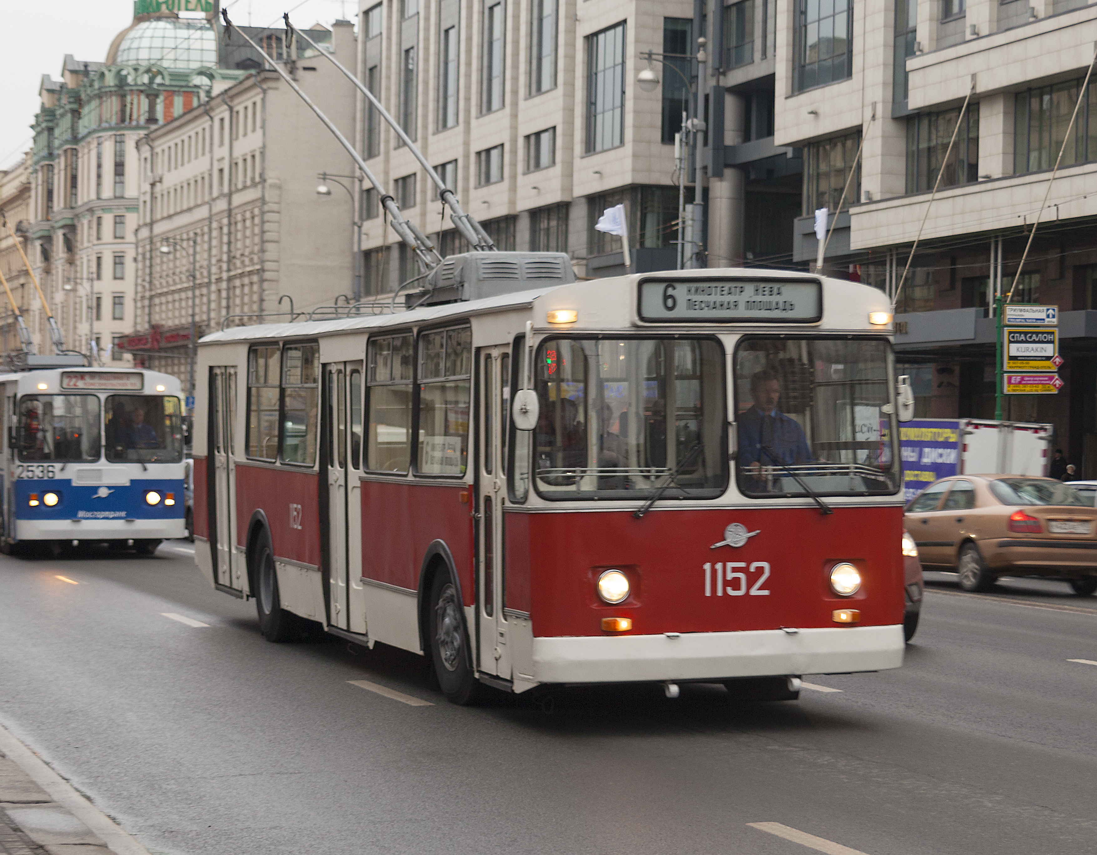 Trolleybus in Moscow/